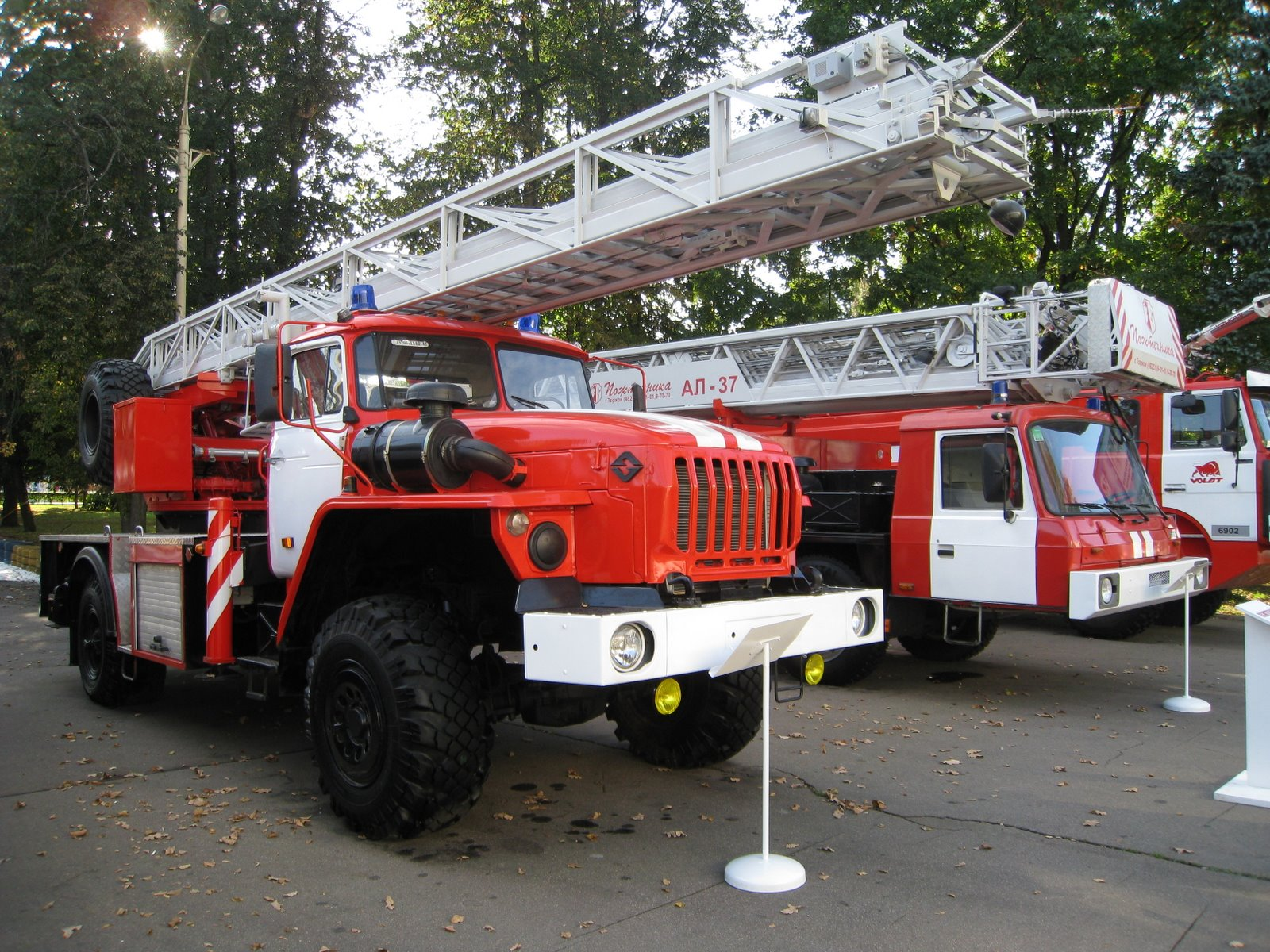 A Russian turntable ladder truck, based on Ural truck chassis.